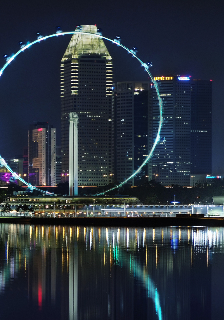 A view of the Singapore Flyer from the upper deck of the Marina Barrage, Singapore. (Two exposures blending with a little contrast and sharpening.)